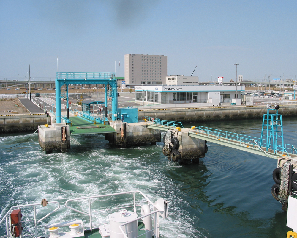 The Tokoname port ferry terminal of Isewan-ferry 伊勢湾フェリー 常滑ターミナル 愛知県 常滑市の常滑港にて船上より撮影